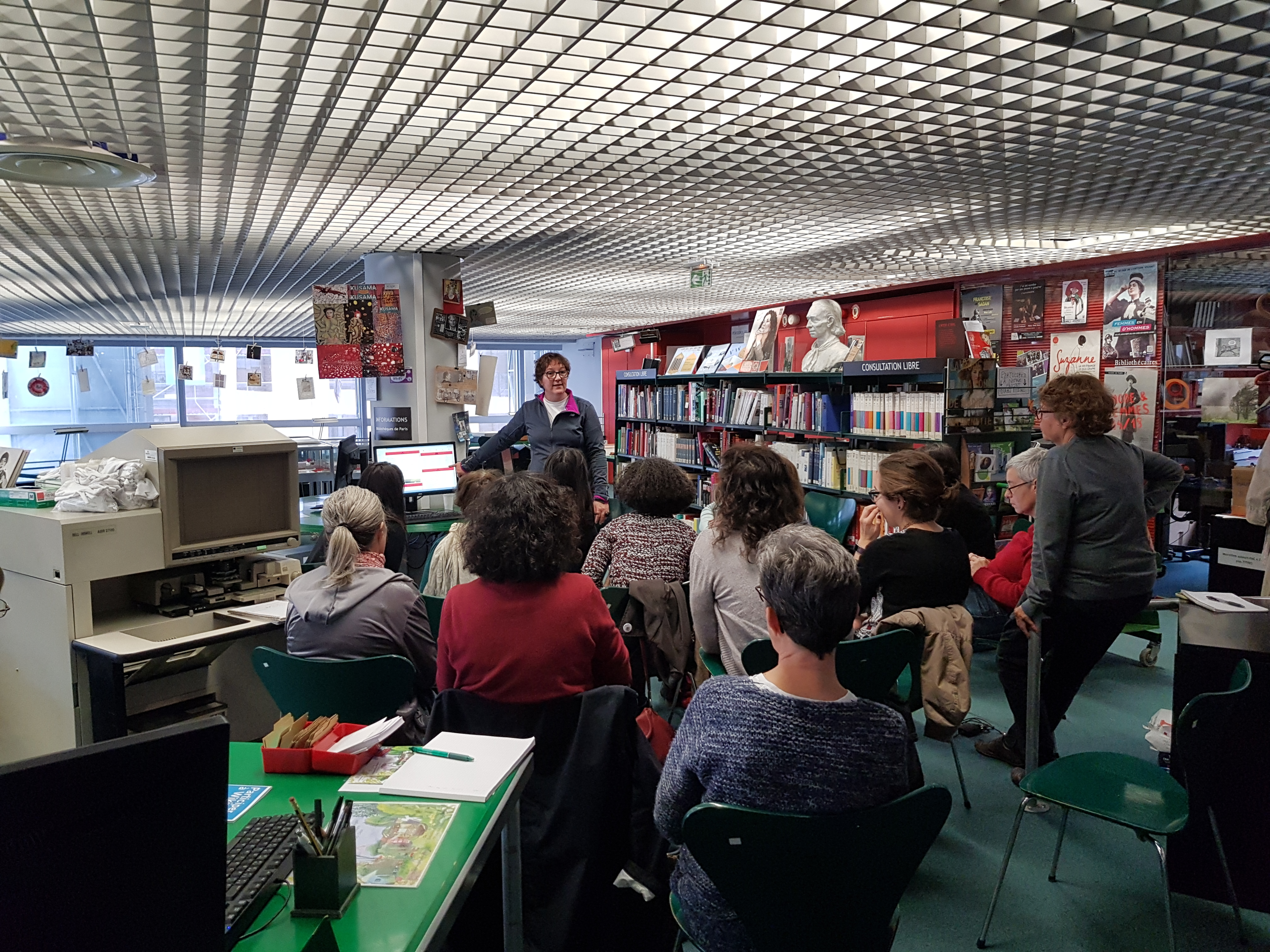 Women at the Les sans pagEs edit-a-thon at the Bibliothèque Marguerite Durand in Paris on October 21, 2017